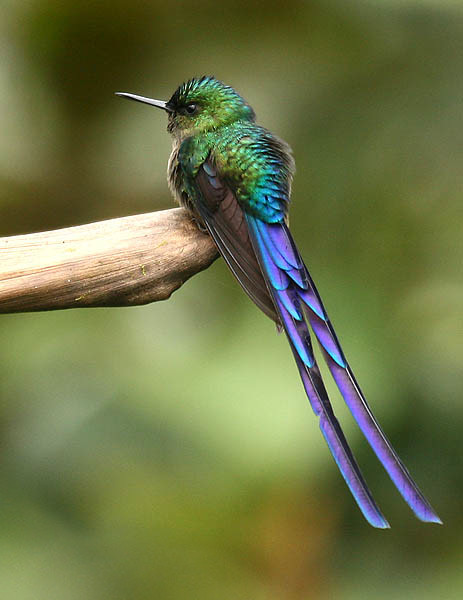 Violet-tailed Sylph (Aglaiocercus coelestis). A male in Old Nono-Mindo Rd, NW Ecuador.